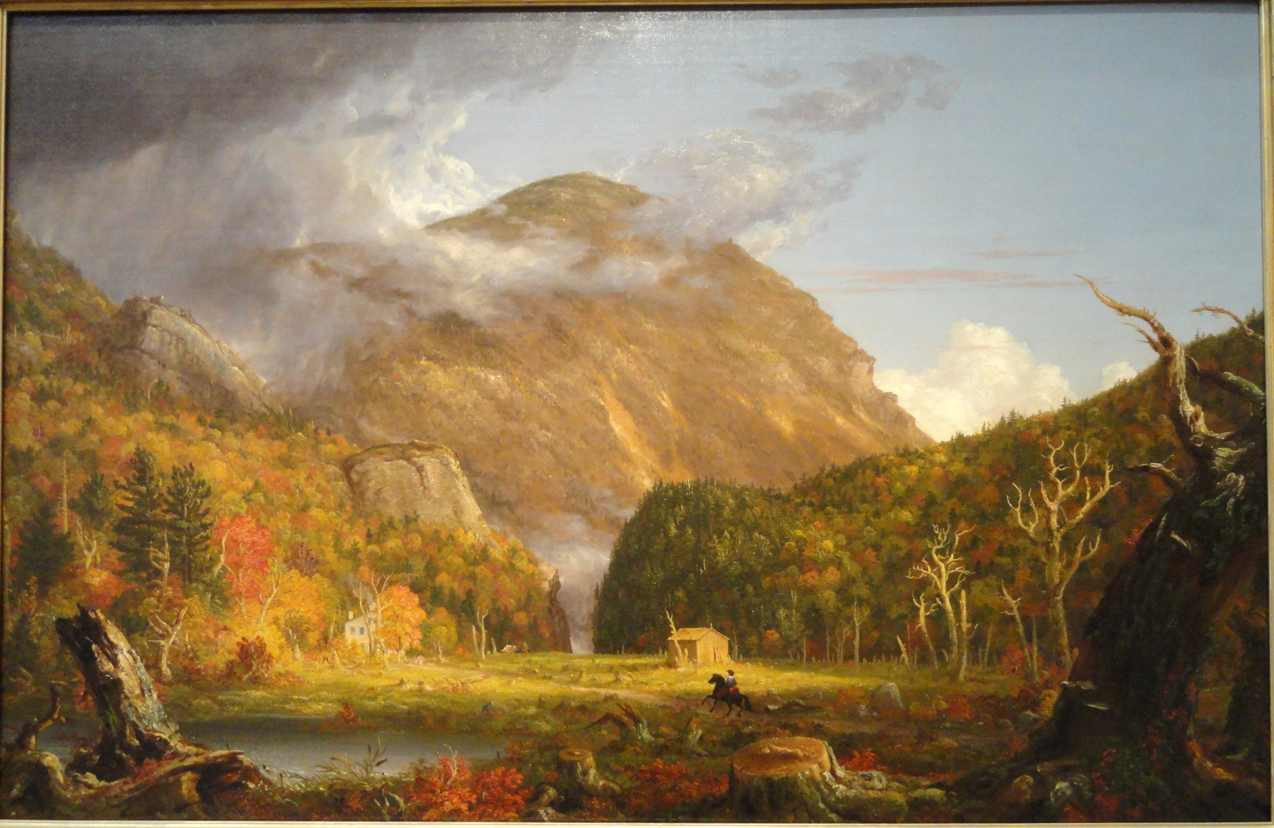 The Notch of the White Mountains (Crawford Notch) by Thomas Cole, 1839, oil on canvas - National Gallery of Art, Washington, DC, USA. This painting is in the public domain because the artist died more than 70 years ago.